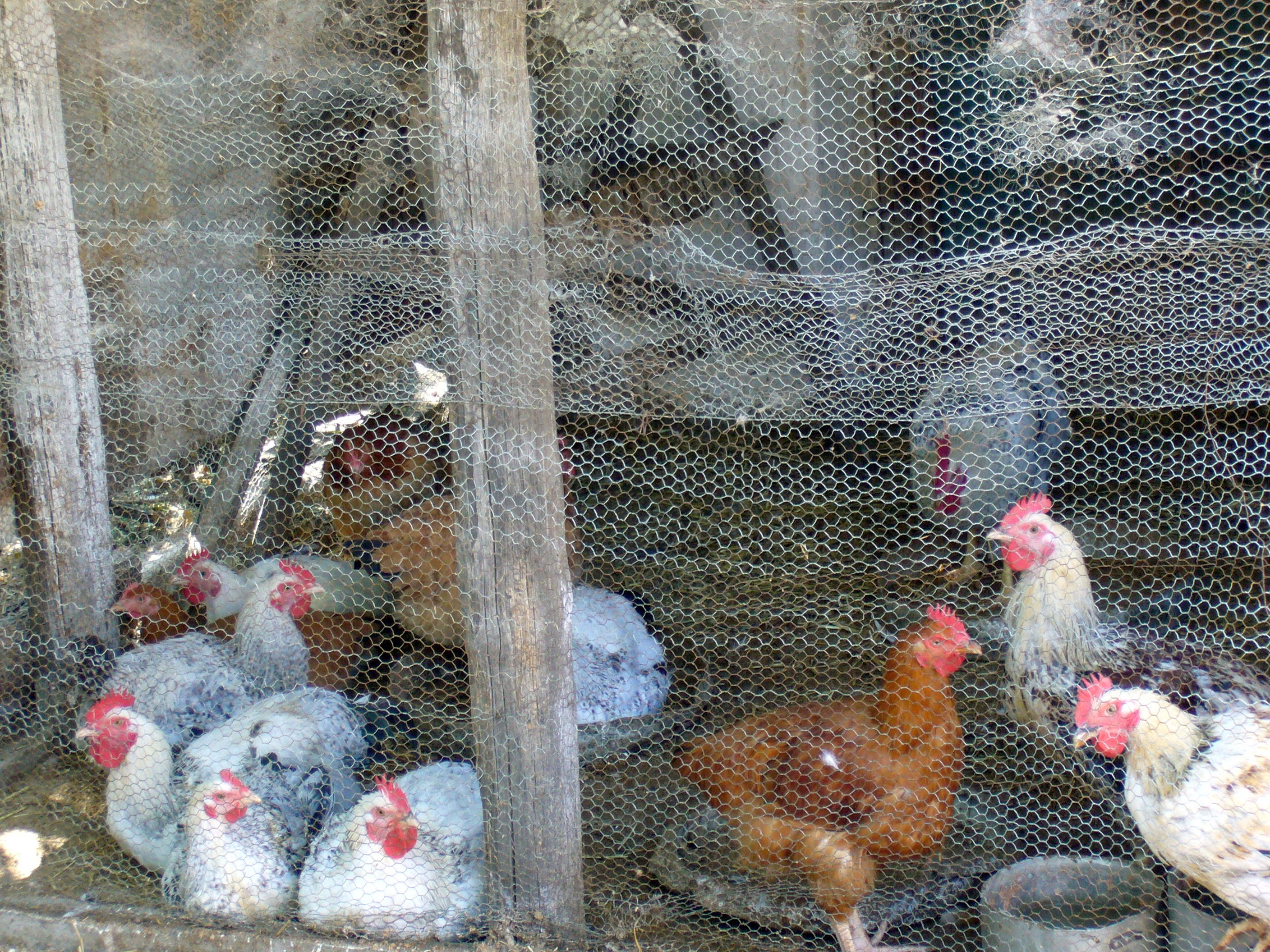 Chicken behind chicken wire in a hen house